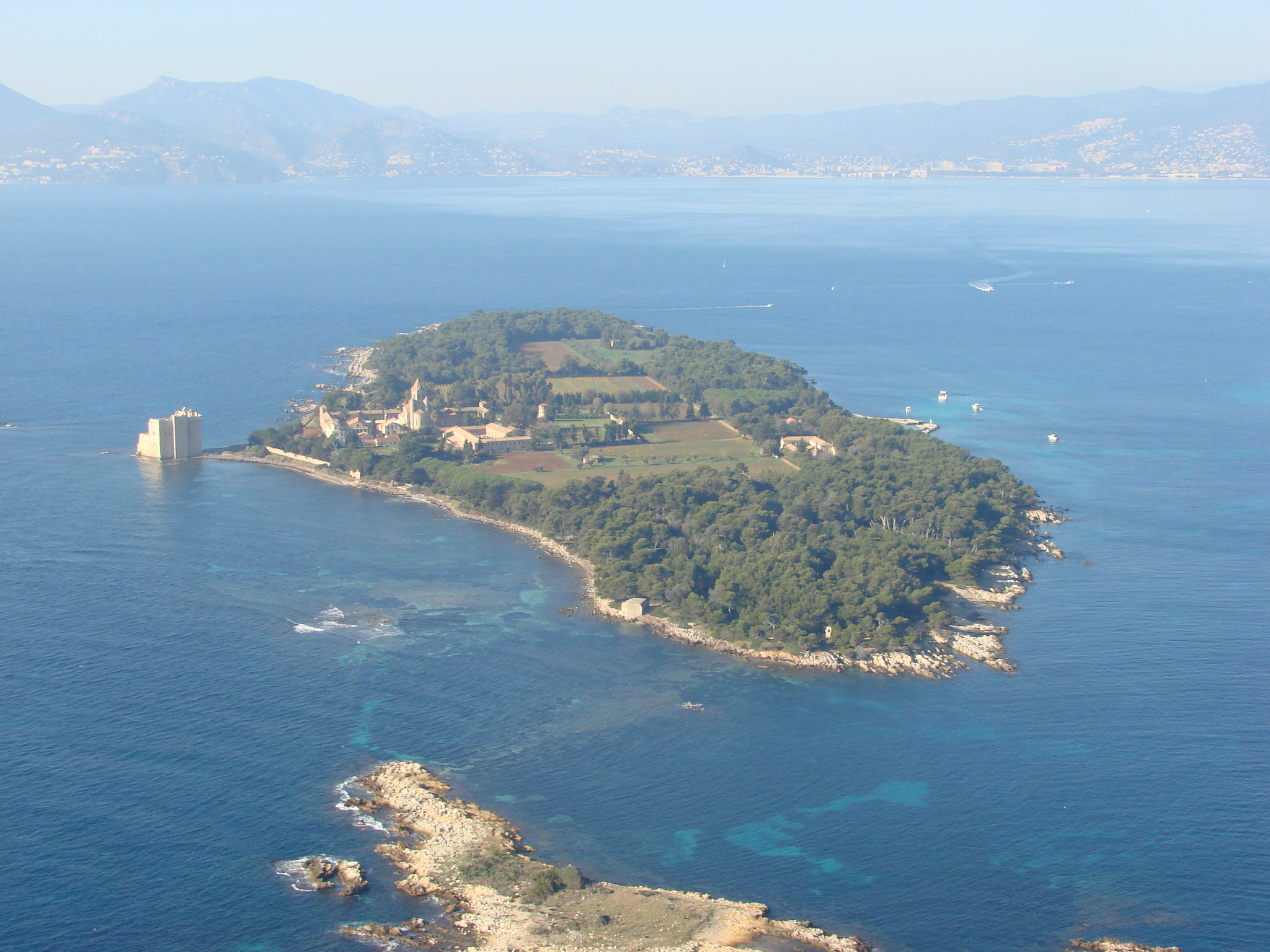 Aerial tour of the Cote d'Azur